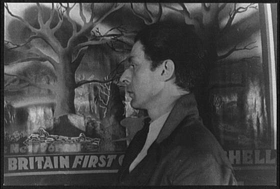 Title: Portrait of E. McKnight Kauffer, London Abstract/medium: 1 photographic print : gelatin silver.